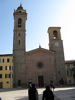 The Cathedral of Bobbio